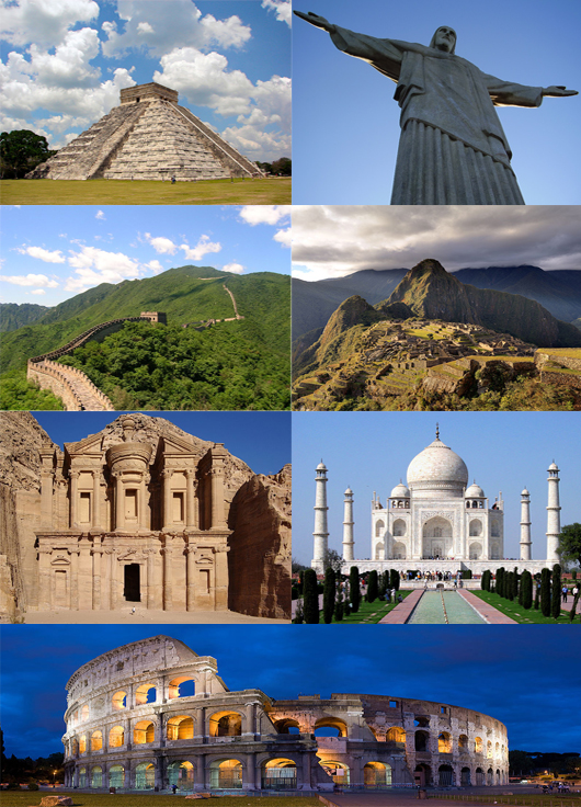 The Castle (El Castillo) at the World Heritage Site Chichen Itza. From the east side you can see both the restored side and the still rather ruinous side of the pyramid.